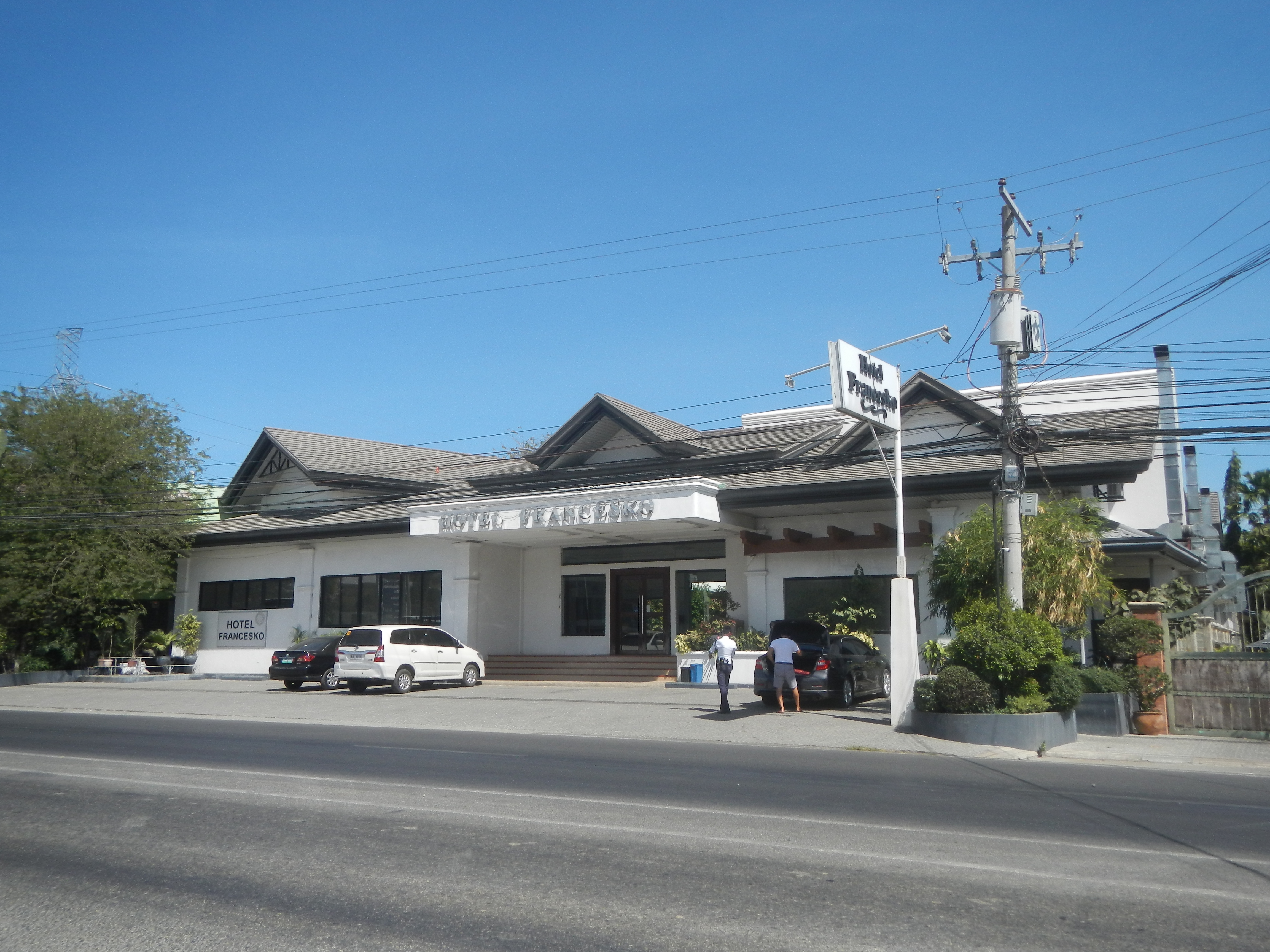 Malasin, San Jose City, Nueva Ecija Sitio from or along Maharlika Highway (Cagayan Valley Road, San Jose City, Nueva Ecija section) Category:Barangays of Nueva Ecija Barangay Malasin 15.8110, 121.0005 Crisanto Sanchez (Poblacion), San Jose City, Nueva Ecija 15.7940, 120.9882 Ferdinand E. Marcos (Poblacion), San Jose City, Nueva Ecija 15.8008, 120.9982 Calaocan, San Jose City, Nueva Ecija 15.7838, 120.9912 San Jose, Nueva Ecija Pan-Philippine Highway Philippine highway network (Note: Judge Florentino Floro, the owner, to repeat, Donor Florentino Floro of all these photos hereby donate gratuitously, freely and unconditionally Judge Floro all these photos to and for Wikimedia Commons, exclusively, for public use of the public domain, and again without any condition whatsoever).